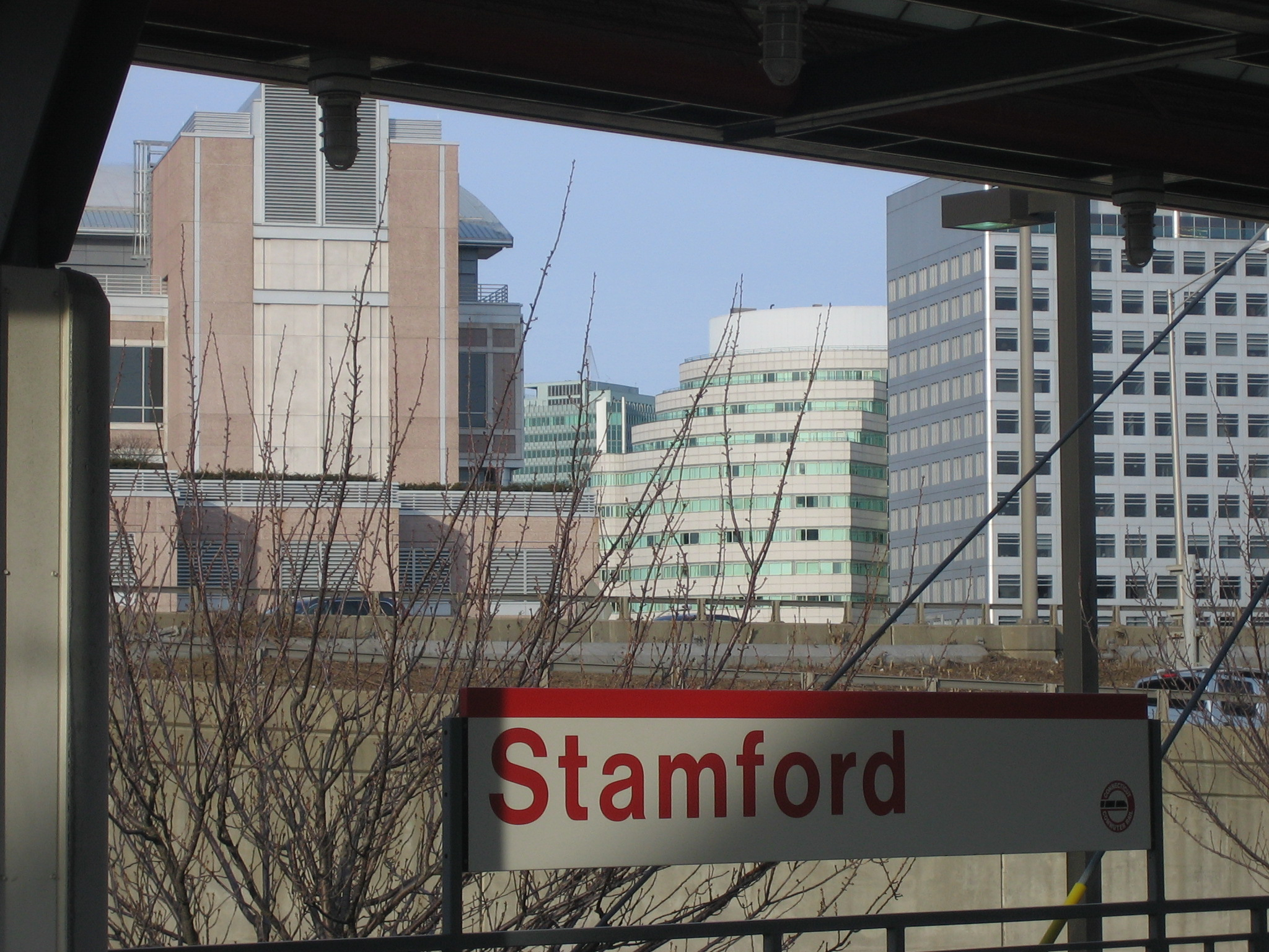 I took this photo in 2005 of part of Stamford's skyline from the city's main train station.